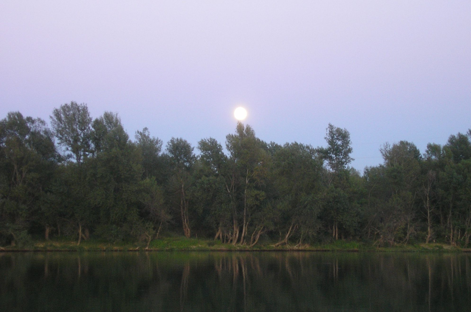 Neretva near Gabela